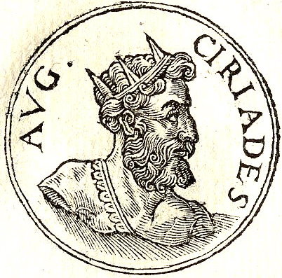 Cyriades stands first in the list of the Thirty Tyrants enumerated by Trebellius Pollio.